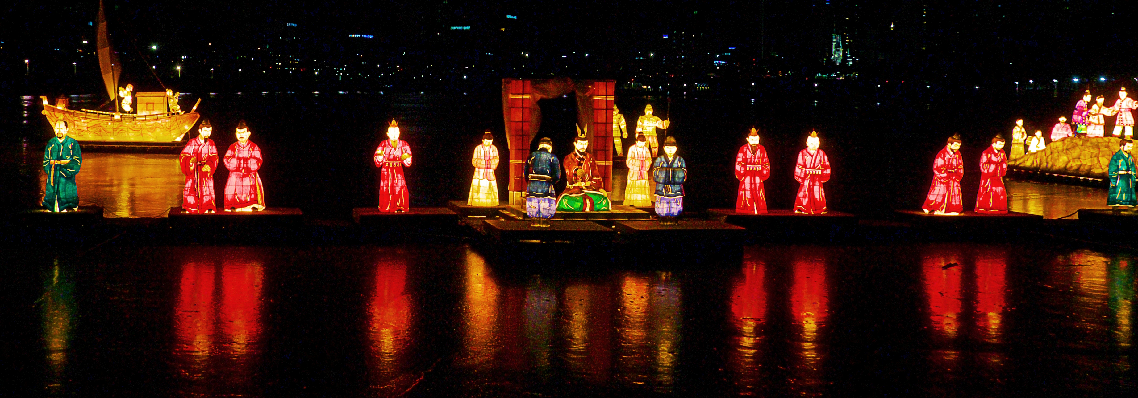 『한성백제의 꿈』 등(燈) 전시 Hanseong Baekje's Dream - Lantern Exhibit 기간 (Duration): 2013.12.20(금)~2014.2.2(일) 점등시간 (Lighting hours) 17:00 ~ 23:00 장소 (Venue): 석촌호수 동호 수상전시(수변데크) Seokchon Lake - East Lake